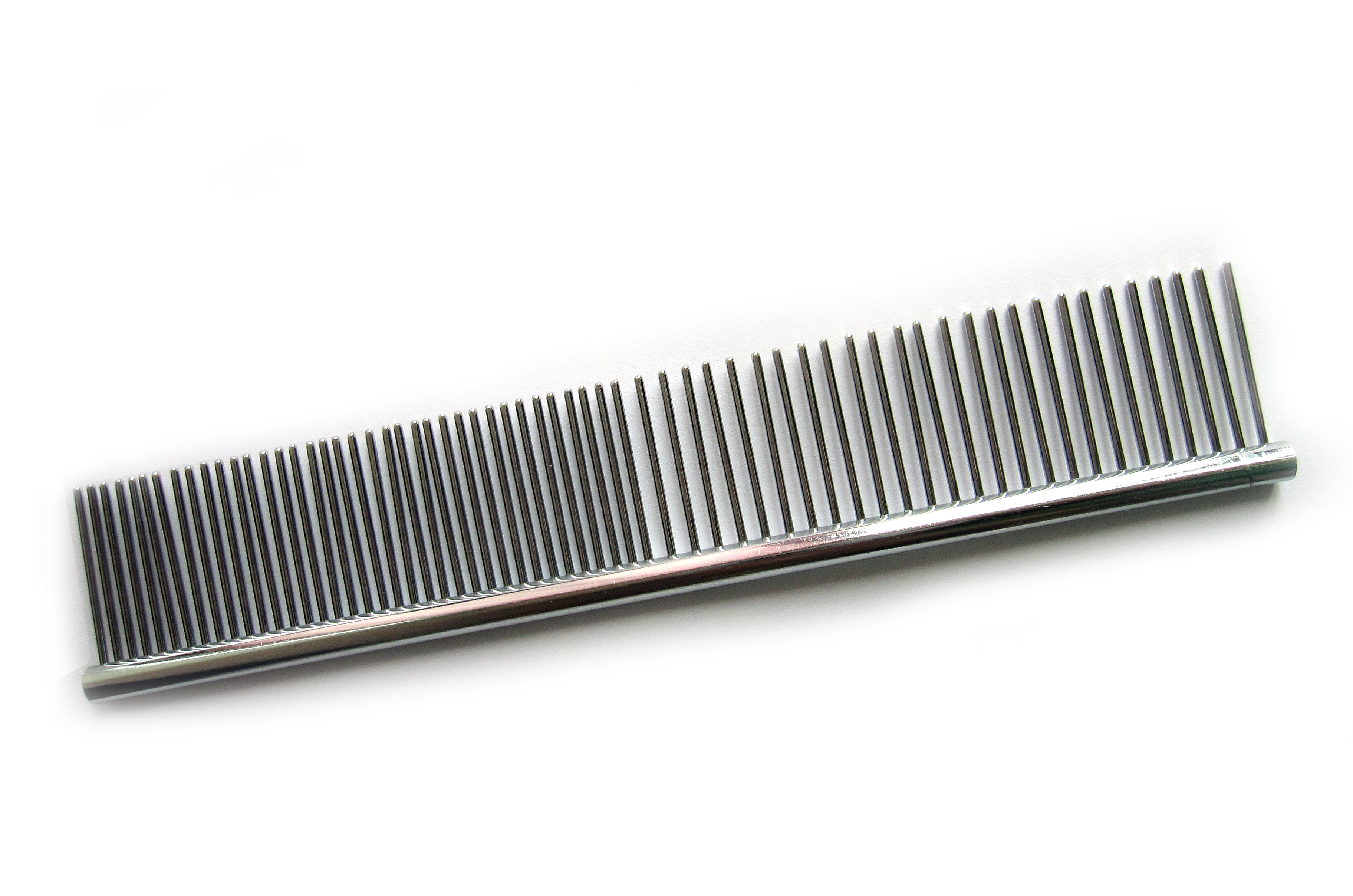 A stainless steel dog comb for coarse and fine hair